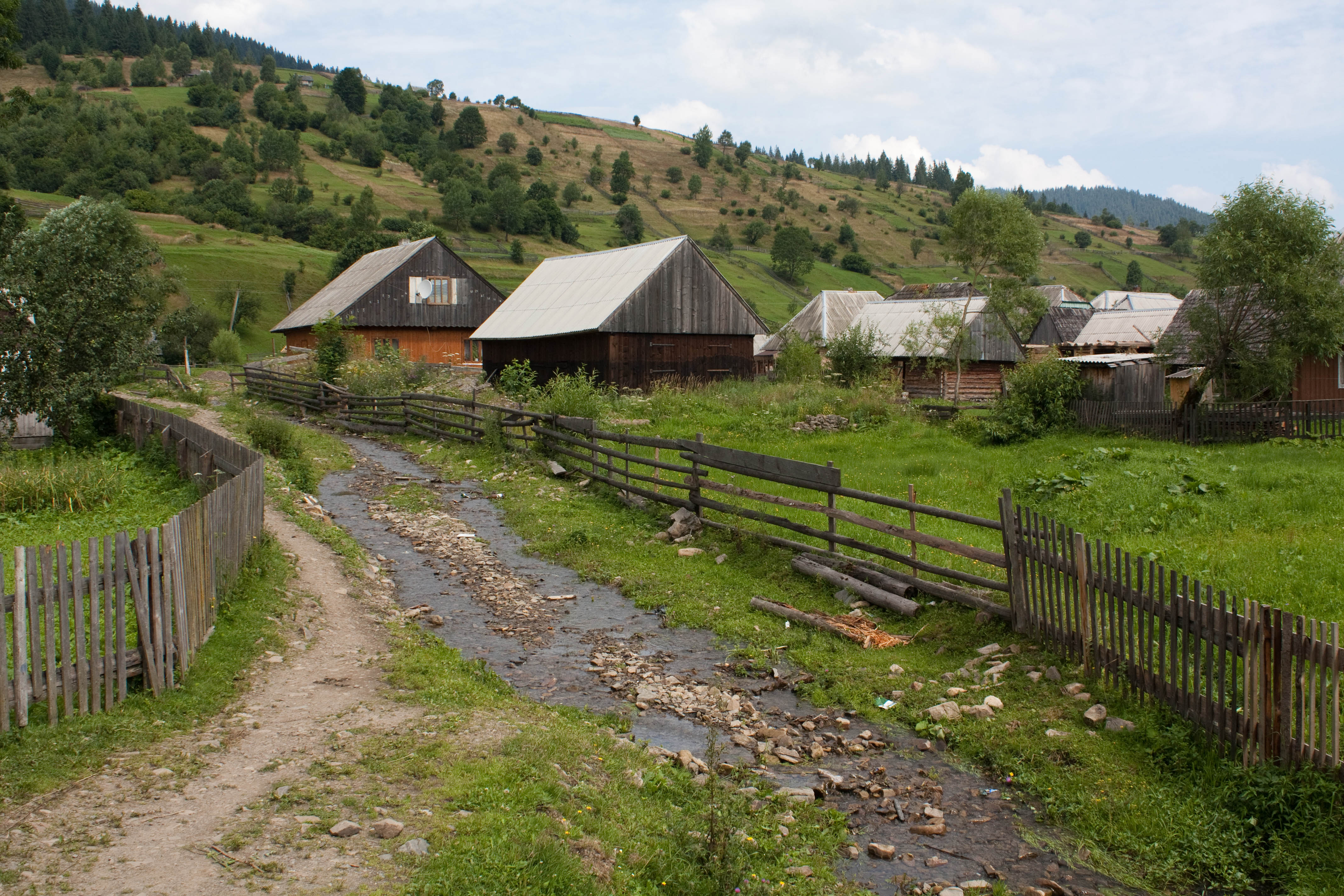 Synevyrska Poliana, Ukraine